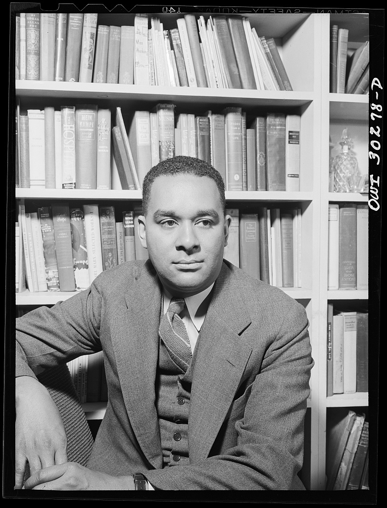 Richard Wright by Gordon Parks, 1943